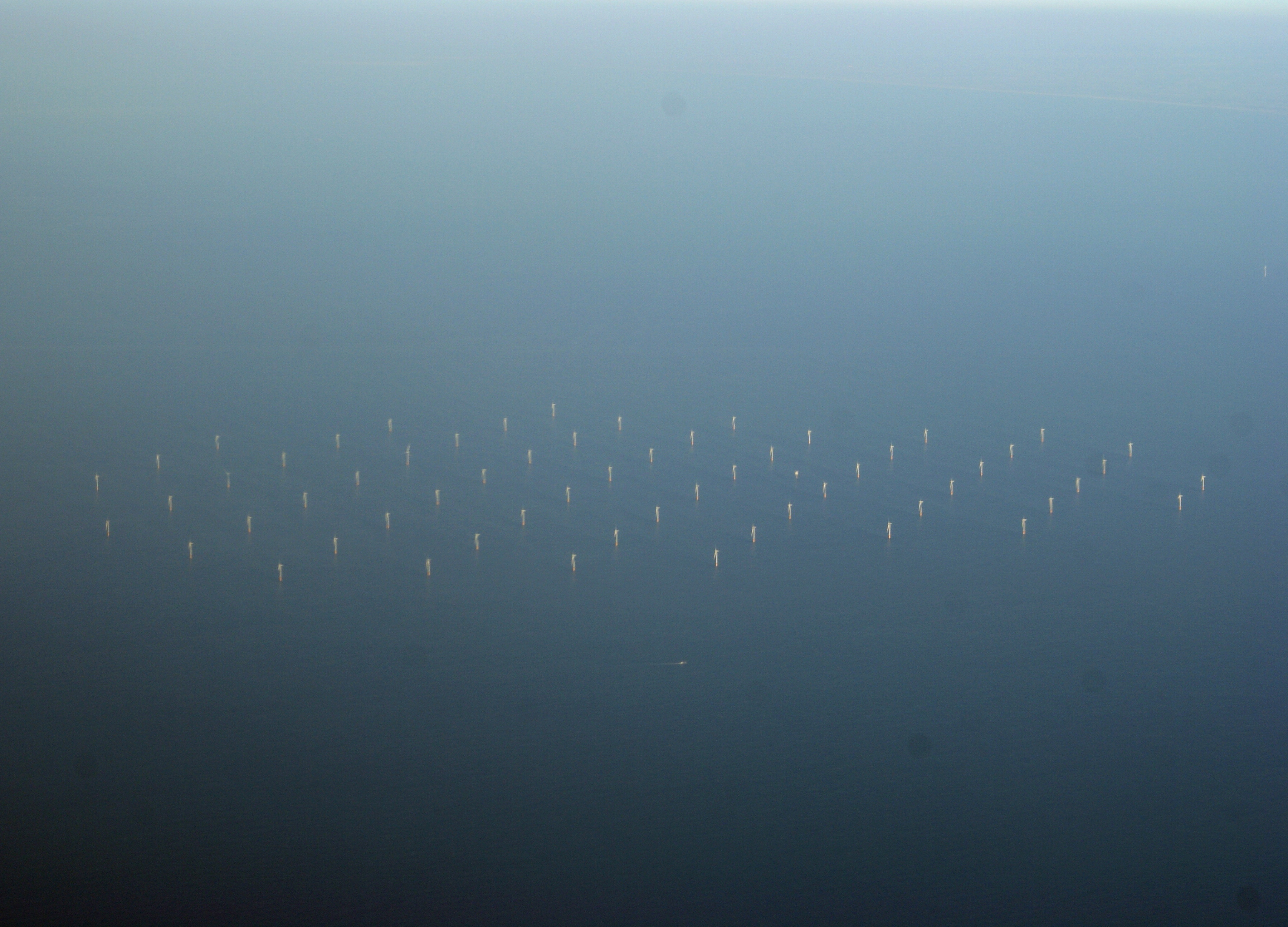 Photo of (presumably) Princess Amalia wind farm in the North Sea, 23 km from IJmuiden. Taken from a plane flying from BHX to AMS. I auto stretched the contrast in the Gimp. I assume it's the Princess Amalia wind farm, since the other wind farm in the vicinity (OWEZ) has 36 turbines whereas the one picture has 60.